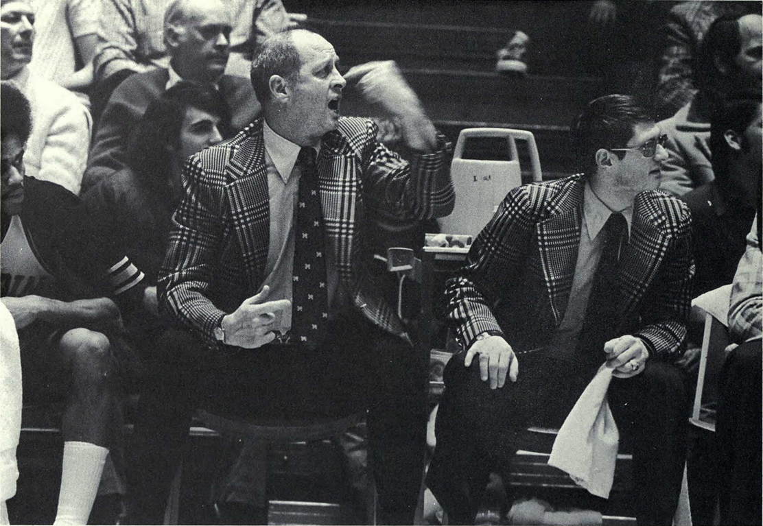 Photograph Johnny Orr (left) and Bill Frieder (right)